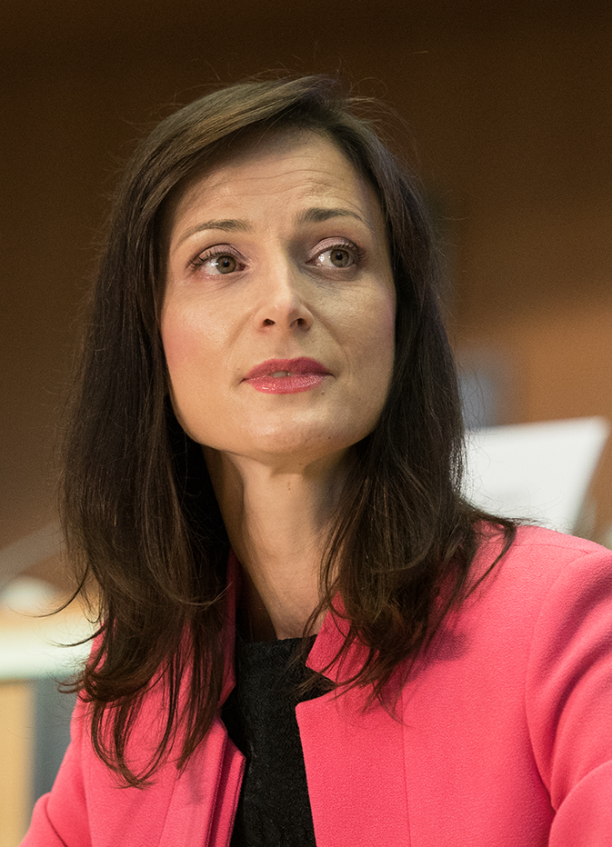 Before the European Parliament can vote the new European Commission led by Ursula von der Leyen into office, parliamentary committees will assess the suitability of commissioners-designate. On 23-26 May, more than 200,000,000 people in 28 EU countries went to the polls to elect members of the European Parliament, giving them a strong democratic mandate, including voting into office the new European Commission and examining the competencies and abilities of its commissioners-designate. Elected members of the European Parliament will also listen to their ideas and will assess their willingness to take concrete actions on the issues that Europeans care about. Each candidate commissioner is invited for a live-streamed, three-hour hearing in front of the committee or committees responsible for their proposed portfolio. The hearings will take place between Monday 30 September and Tuesday 8 October. This photo is free to use under Creative Commons license CC-BY-4.0 and must be credited: "CC-BY-4.0: © European Union 2019 – Source: EP". No model release form if applicable. For bigger HR files please contact: webcom-flickr(AT)